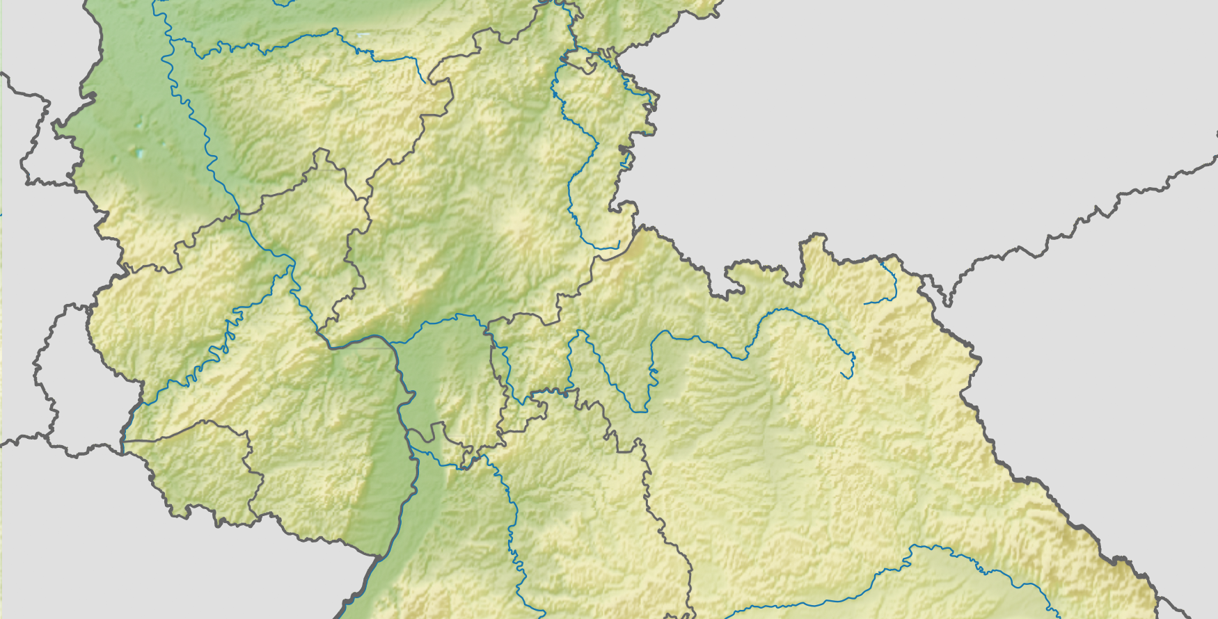 Central West Germany in 1989. Edit of maps: File:Germany, Federal Republic of location map January 1957 - October 1990.svg and File:Relief_Map_of_Germany.svg N: 51.64° N S: 48.68° N W: 5.5° E E: 14.25° E